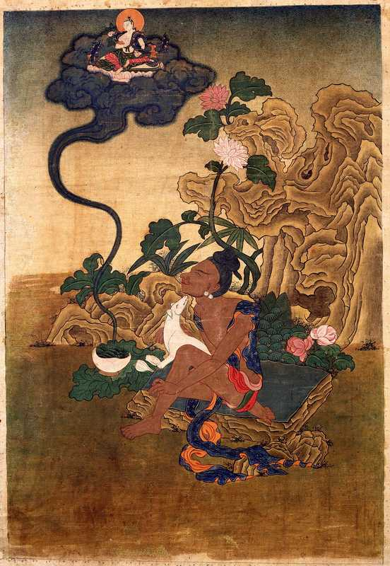 Kukkuripa, One of the 84 Mahasiddhas